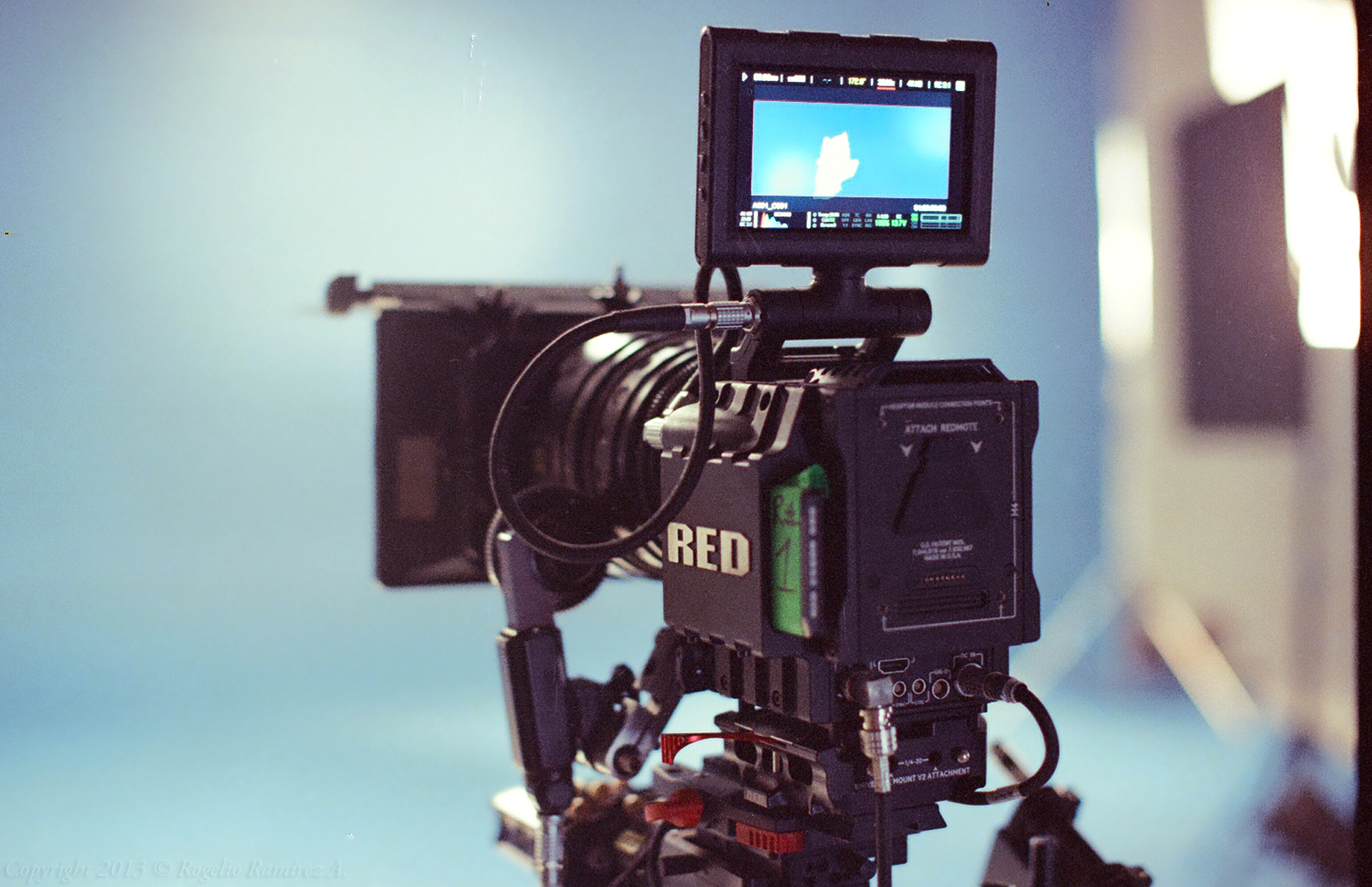 Red EPIC camera Kodak Vision2 5219 Lightweight mode for steadycam